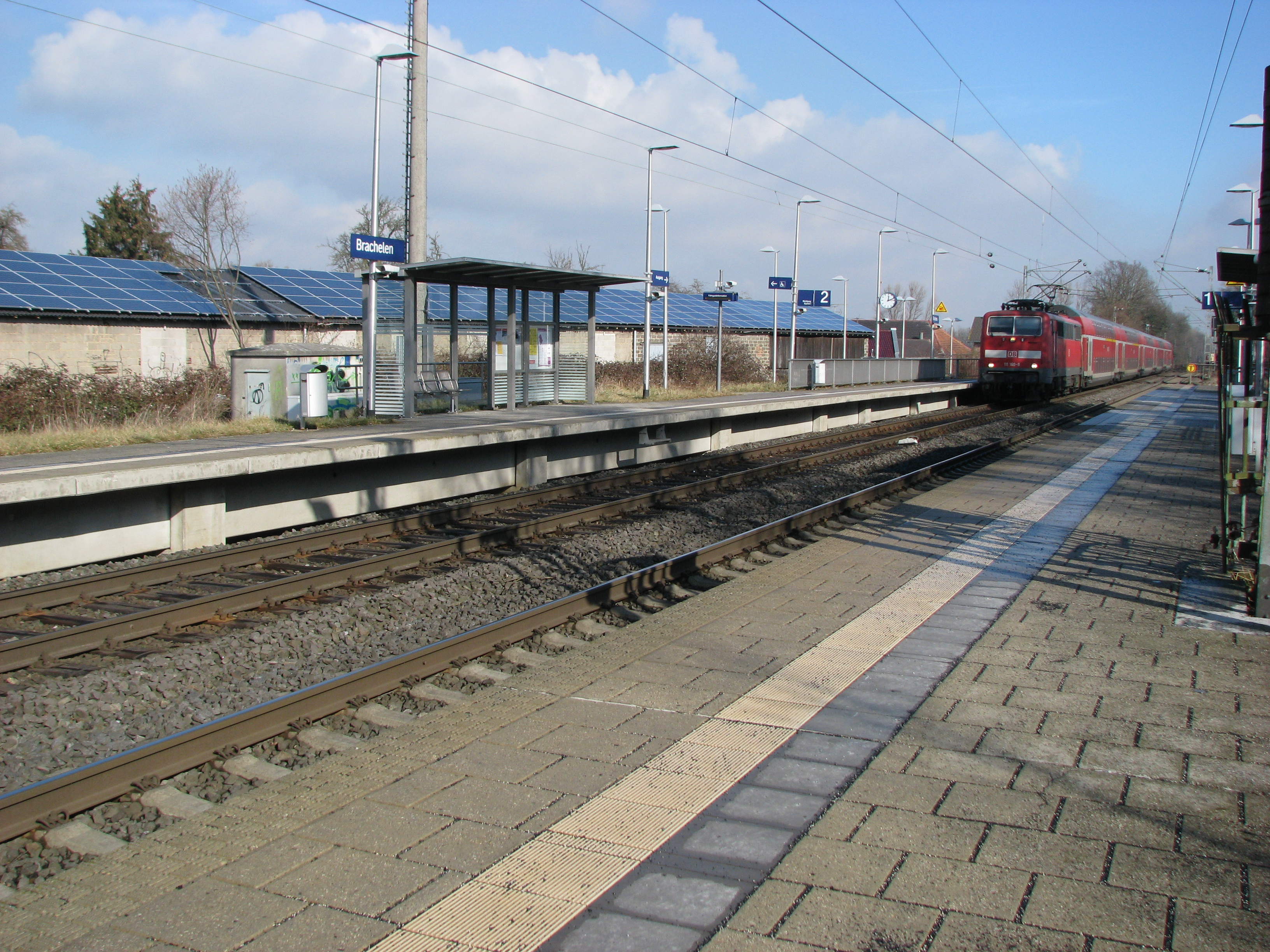 Brachelen Station, platforms and without stopping Regional-Express RE4 - Wupper-Express to Aachen Central Station